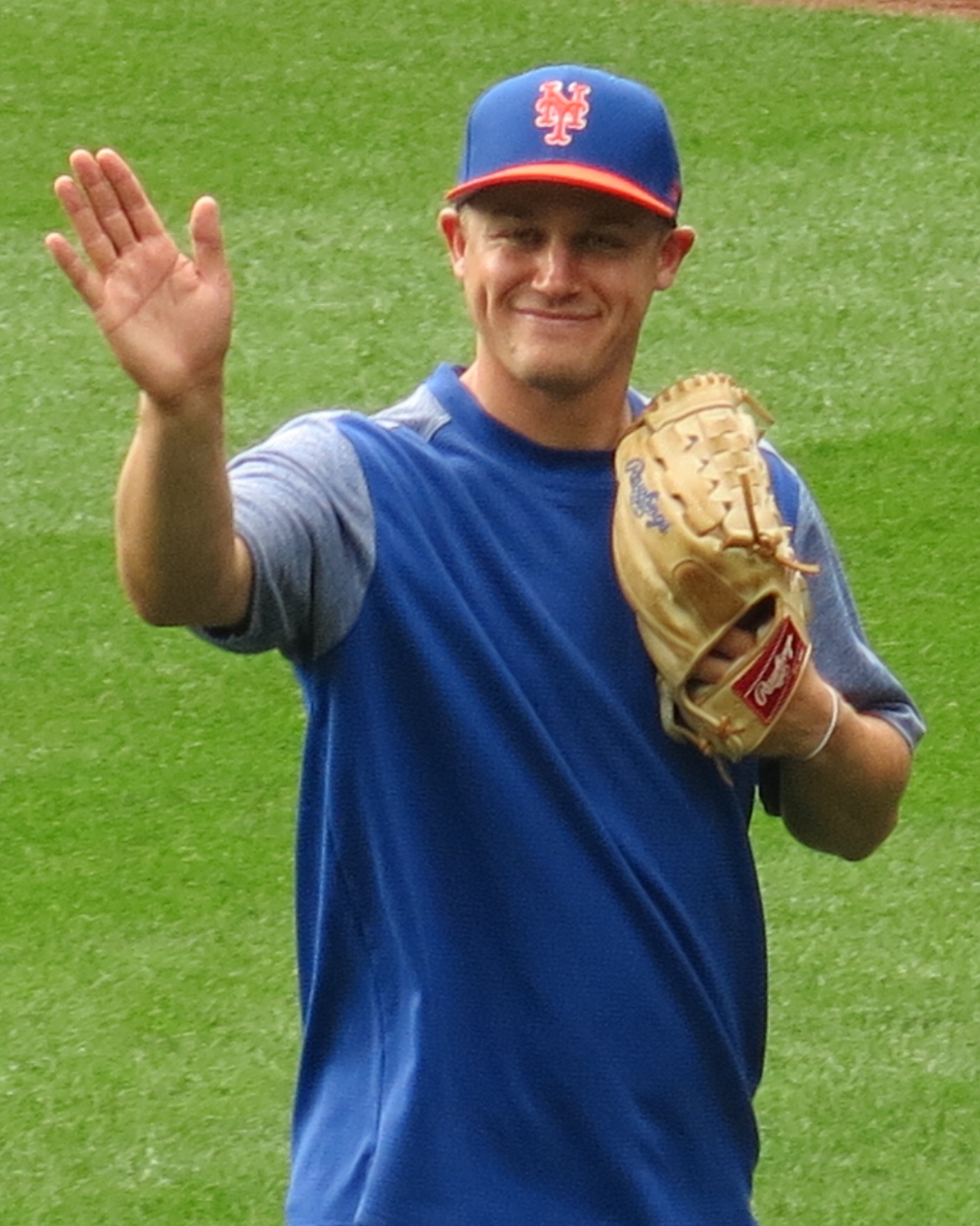 Paul Sewald of the New York Mets, July 15, 2017.